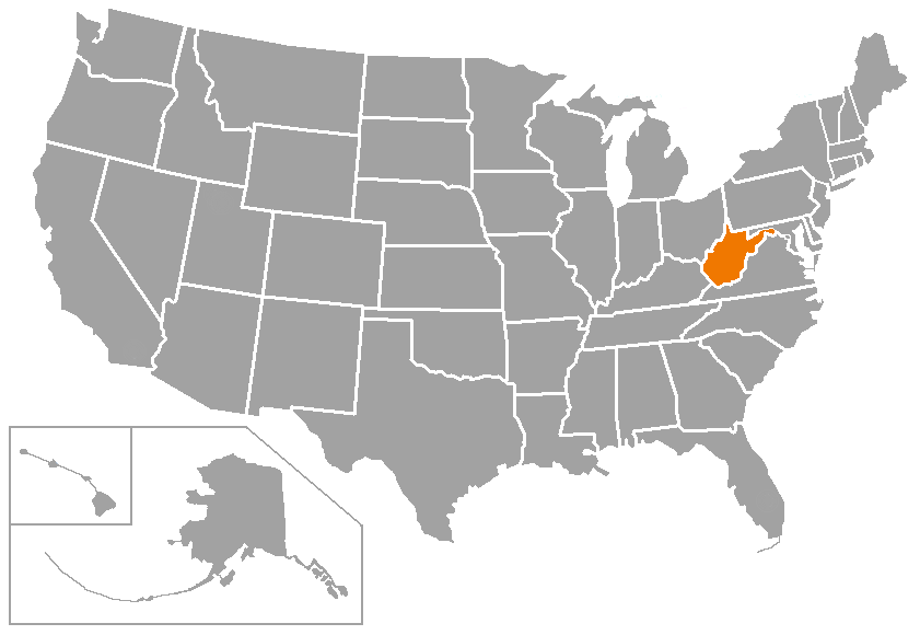 created this image from the blank map template